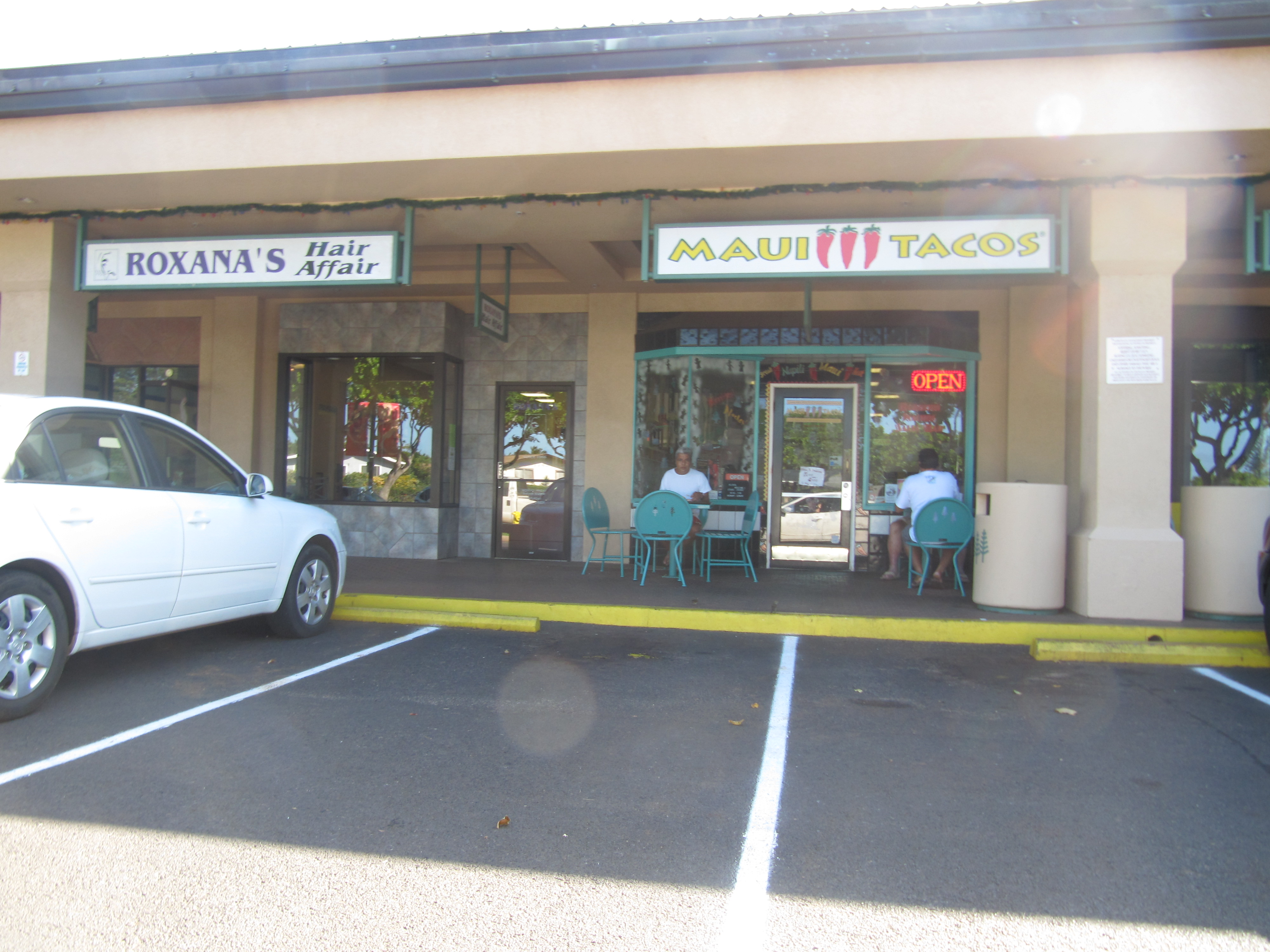 Maui Tacos is a fast food franchise restaurant that serves Mexican food with a twist of Hawaiian flavor. The first Maui Tacos was opened by Mark Ellman in 1993 in Nāpili, Maui, Hawaiʻi. Ellman opened six more locations in Hawaiʻi before opening his first store in the mainland in 1998.